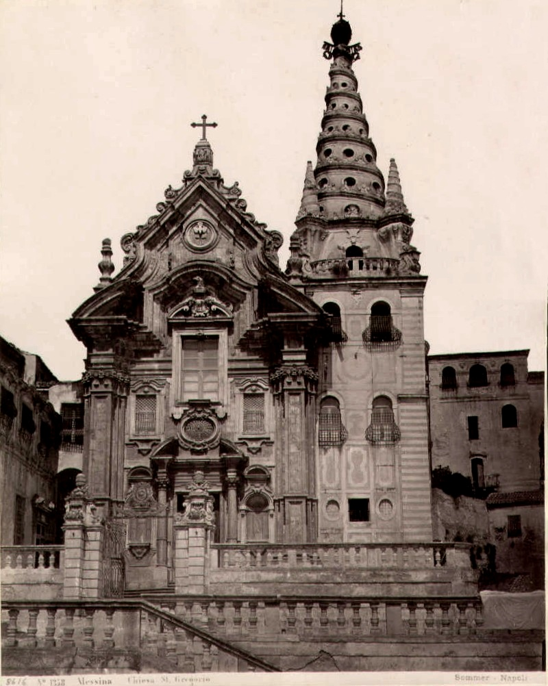 Giorgio Sommer (1834-1914), "Messina - San Gregorio church". Catalogue number: 1358.